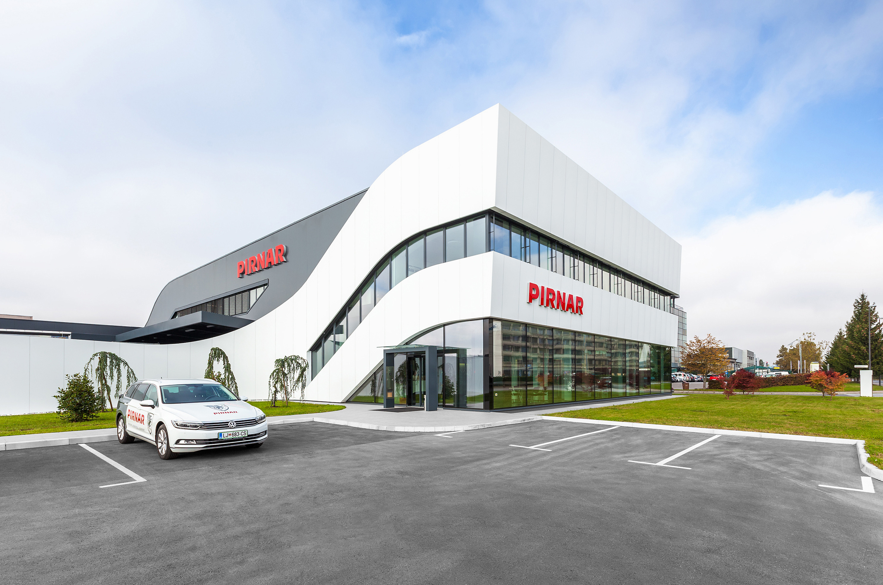 Poslovna stavba podjetja Pirnar d.o.o.